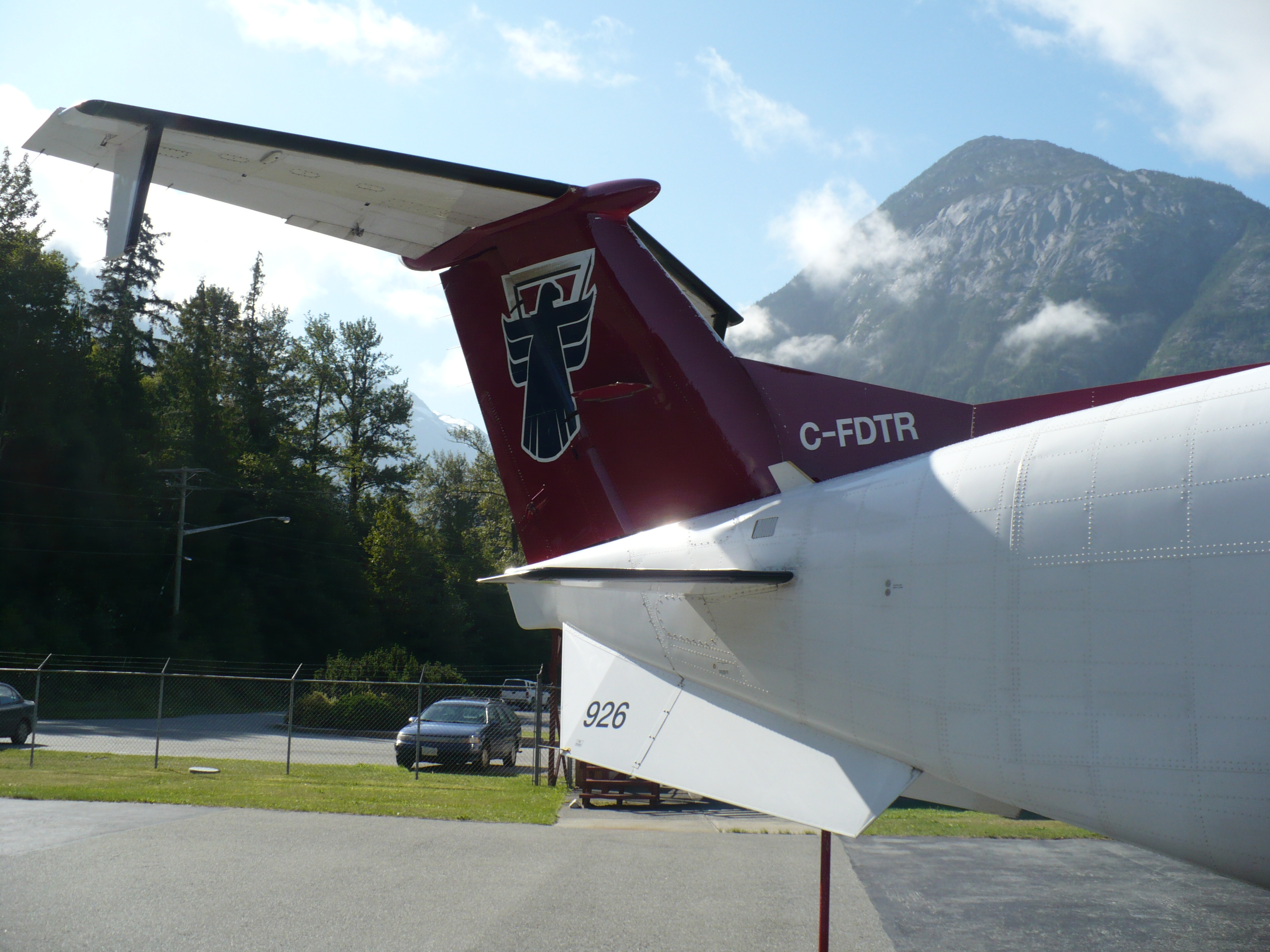 The tail of a Northern Thunderbird Air Beechcraft 1900D (C-FDTR)